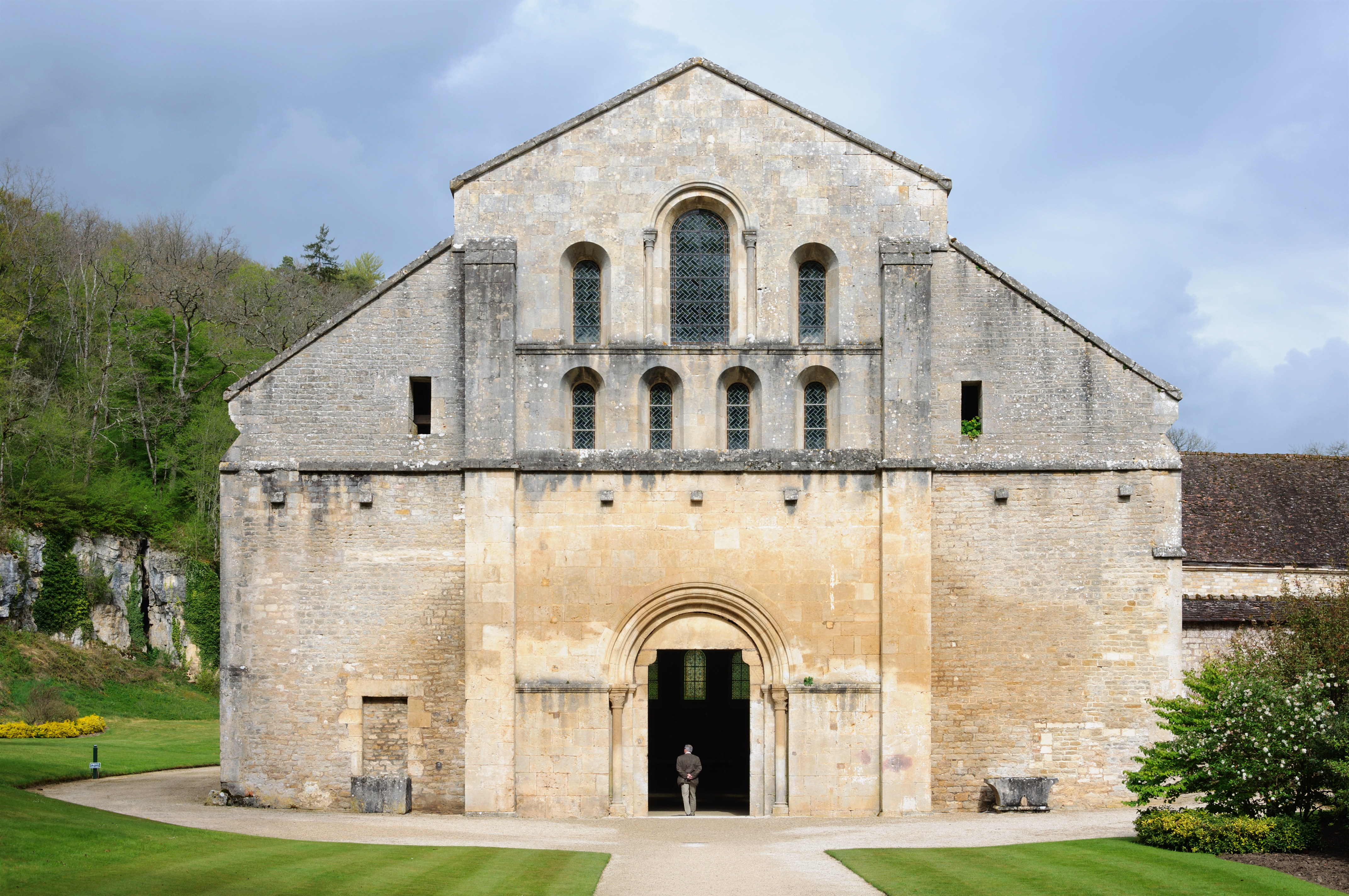 Abbey of Fontenay, Marmagne, Côte-d'Or department, Burgundy, France: west facade of the church.